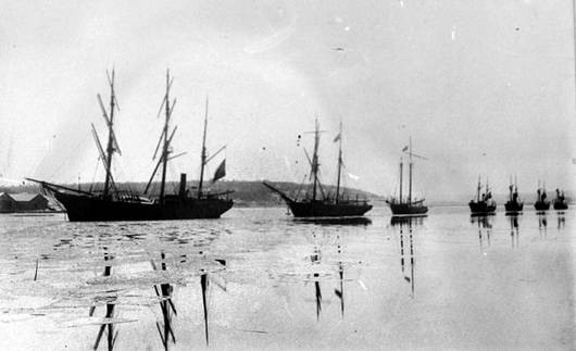 Svend Foyn's Arctic fleet in cortege on his funeral day, 8 December 1894. From left to right: Morgenen, Freya, Haabet, Immanuel, Arctic, Spes & Fides and Providentia